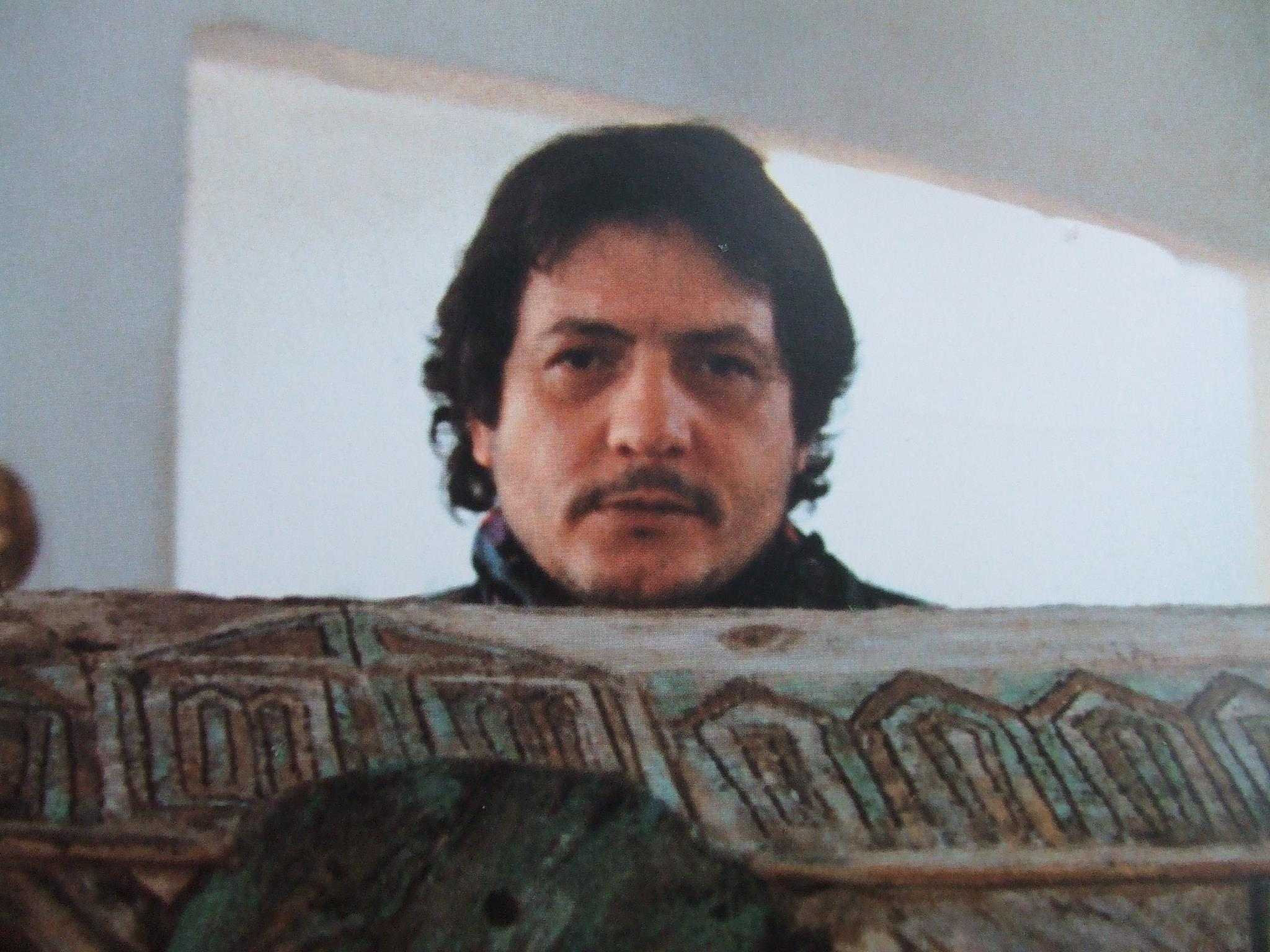 ritratto di Giovanni Urbinatiopera propriaAnno 2012 pubblicazioneGiovanni UrbinatiLicenza libera CC-BY-SA-3.0OTRS = This work is free and may be used by anyone for any purpose. If you wish to use this content, you do not need to request permission as long as you follow any licensing requirements mentioned on this page.